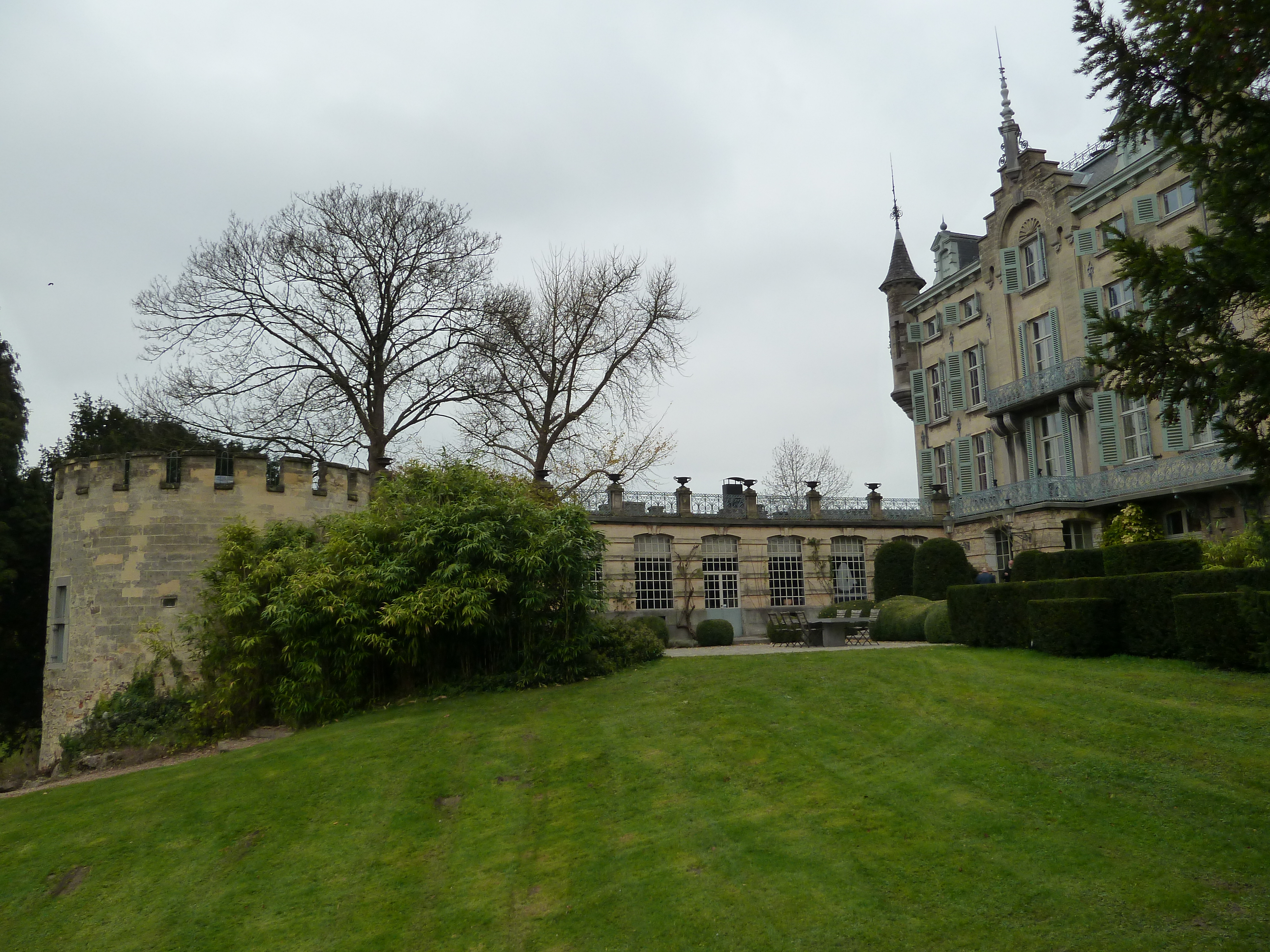 Castle gronsveld, Limburg, the Netherlands